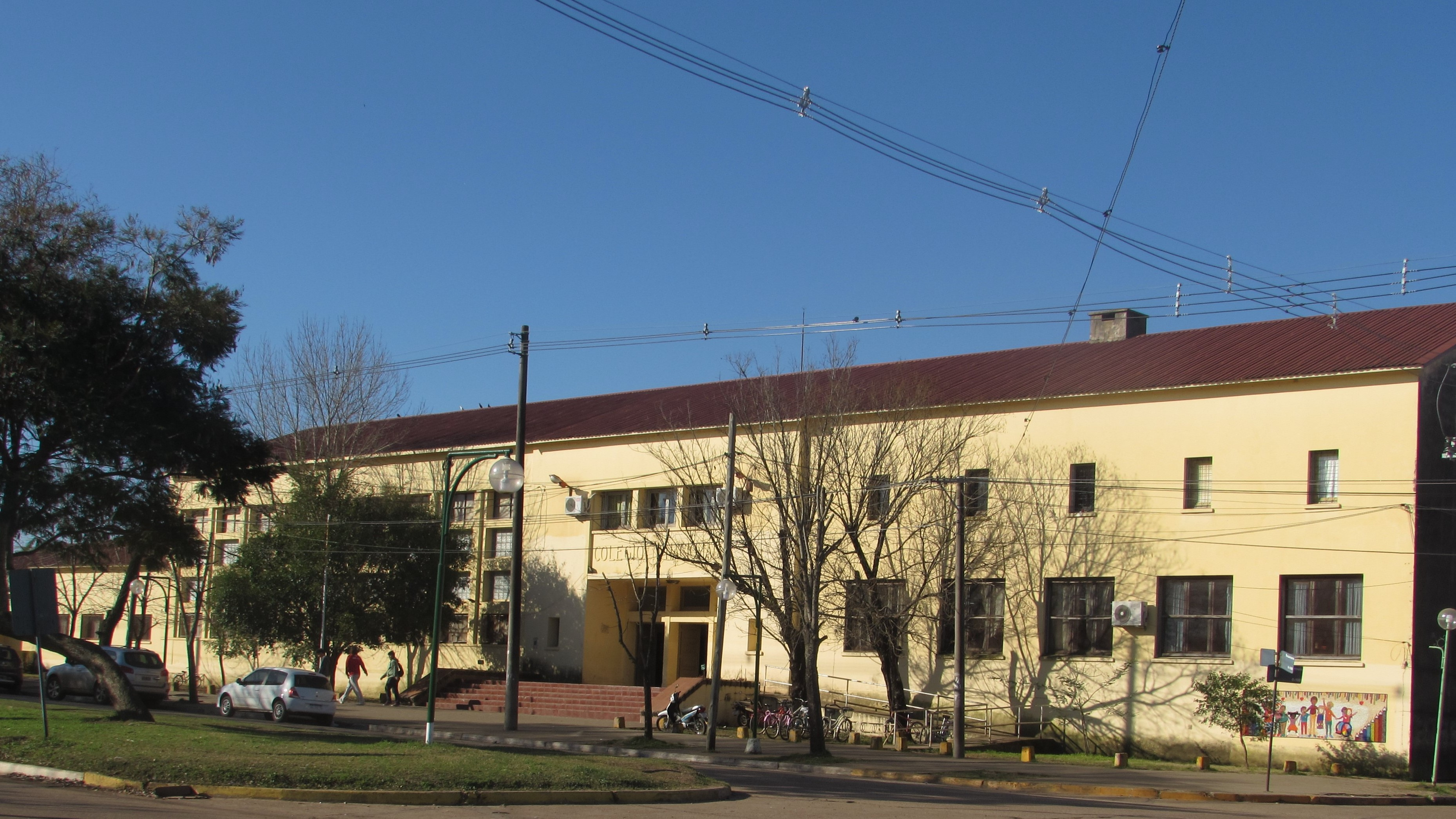 Facade Martiniano Leguizamón Superior Normal School, Villaguay city, Entre Ríos province